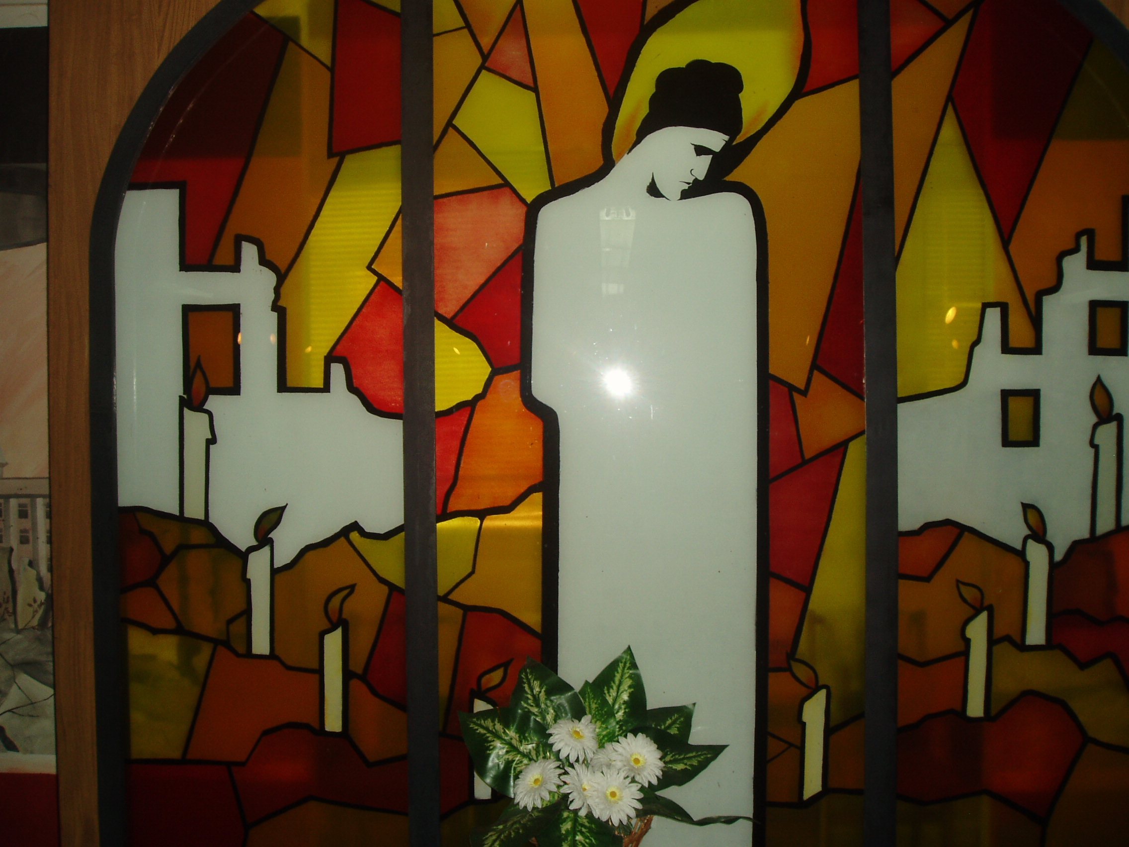 Far end of the main exhibition room. In Bender, Transnistria, Moldova.